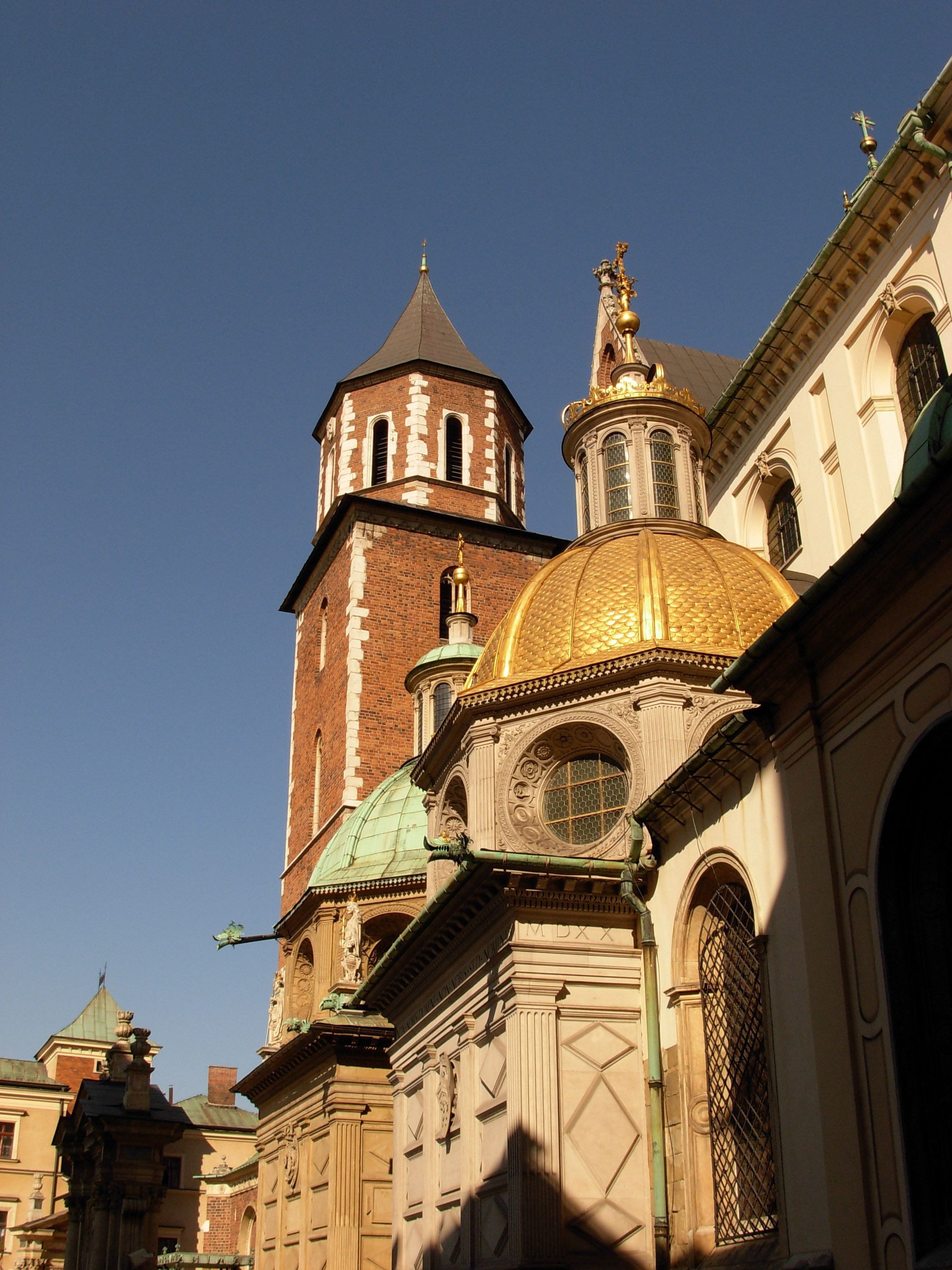 Cathedral on Wawel Hill